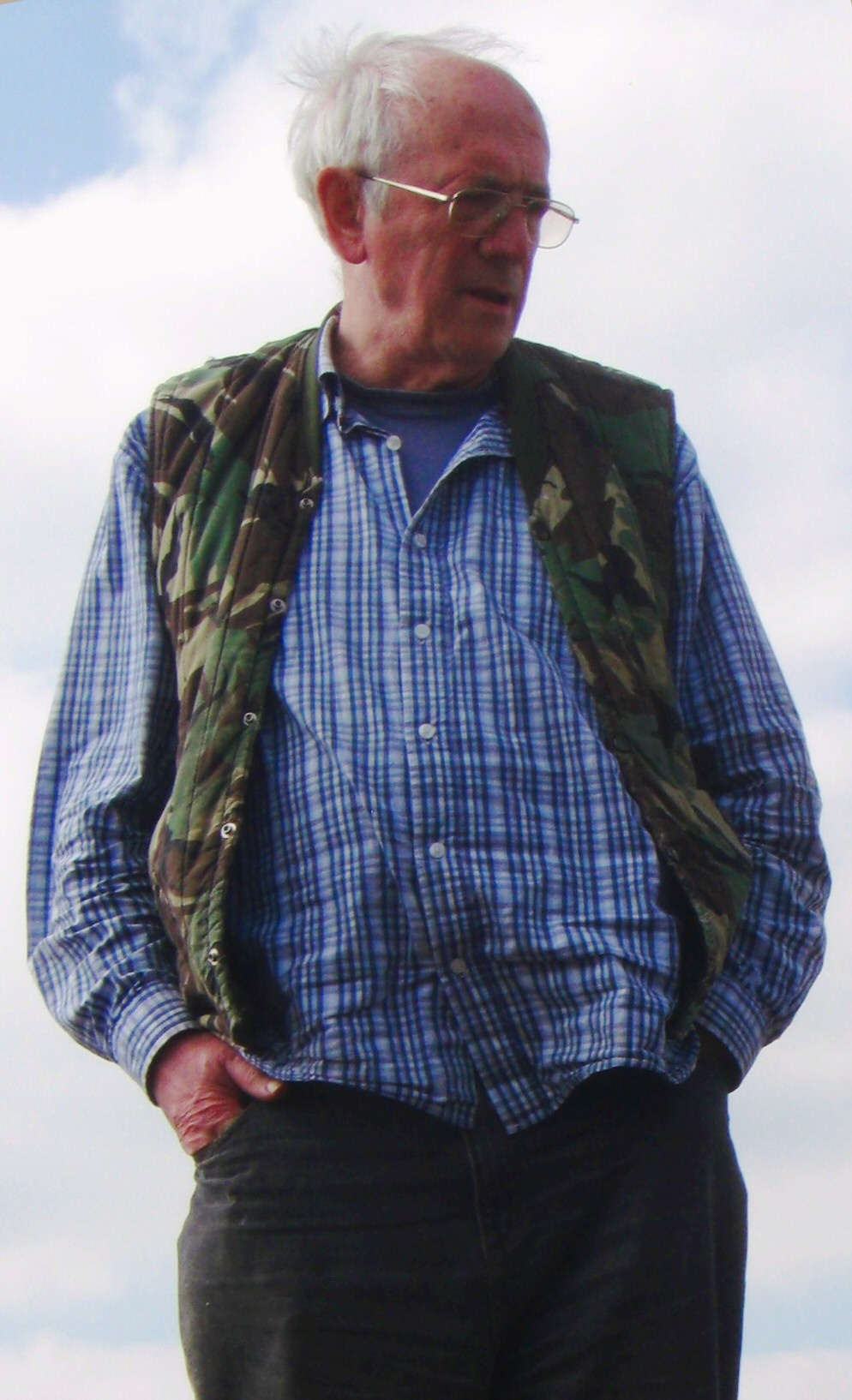 Photograph of the fantasy novelist Alan Garner, taken in September 2011 at his home of Blackden in Cheshire.